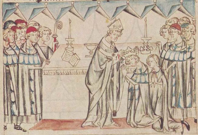 Coronation of Henry VII, Holy Roman Emperor